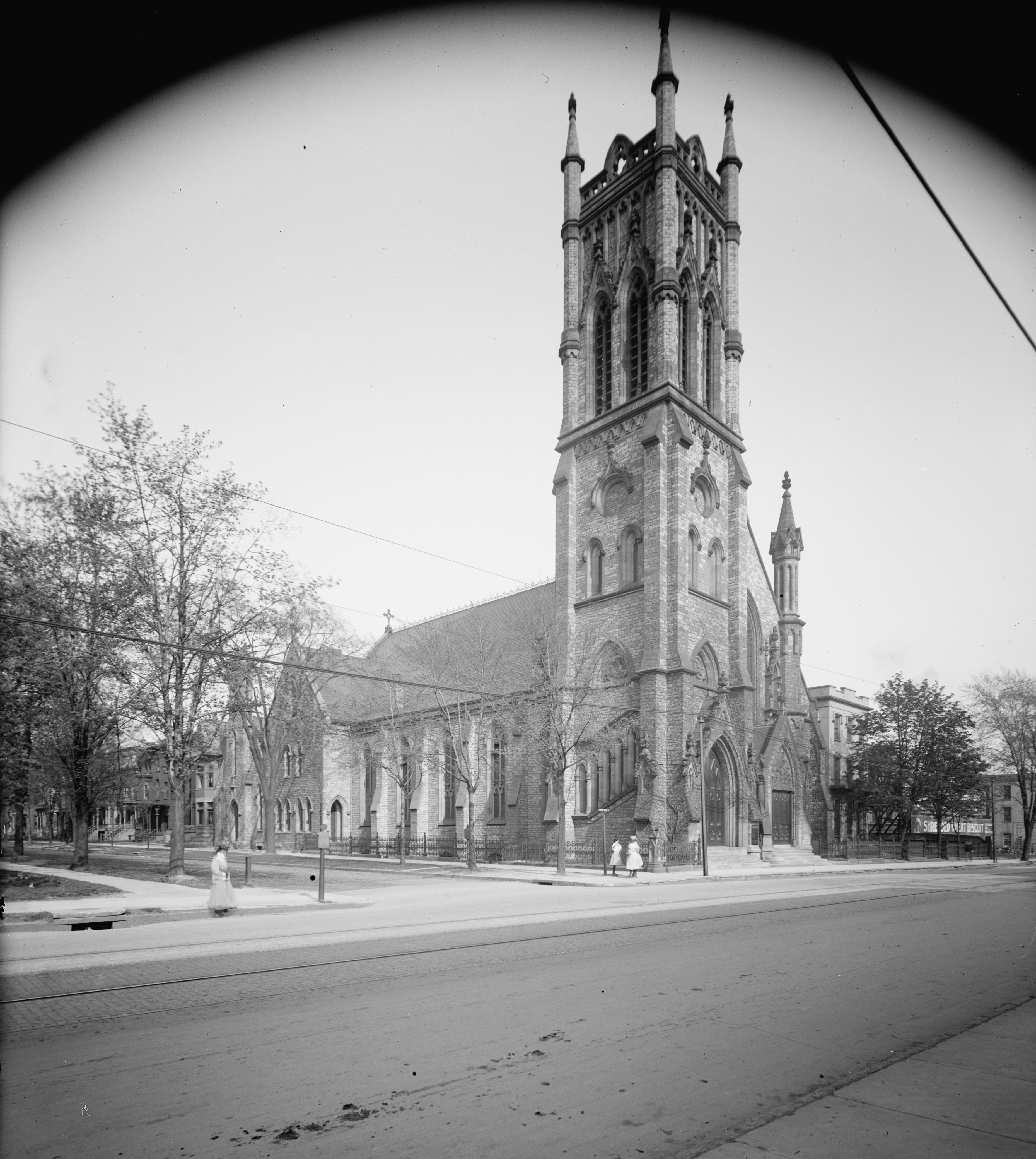 St. John's Episcopal Church, Detroit, Mich